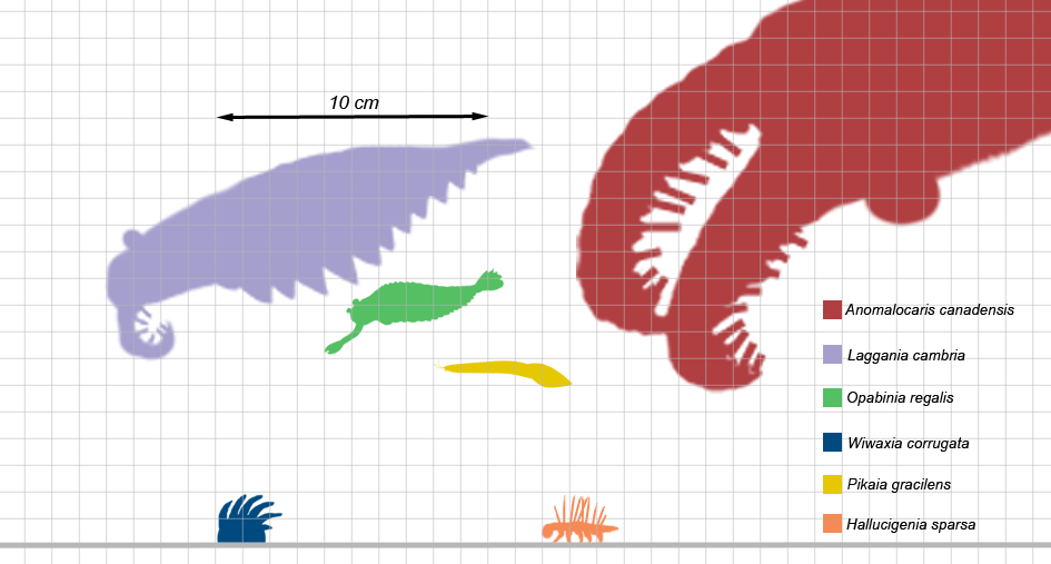 Close-up size comparison of selected Burgess Shale fauna. Modified from illustrations by ArthurWeasley, Matt Martyniuk, and Mateus Zica Species, from top to bottom: Anomalocaris canadensis Laggania cambria Opabinia regalis Wiwaxia corrugata Pikaia gracilens Hallucigenia sparsa